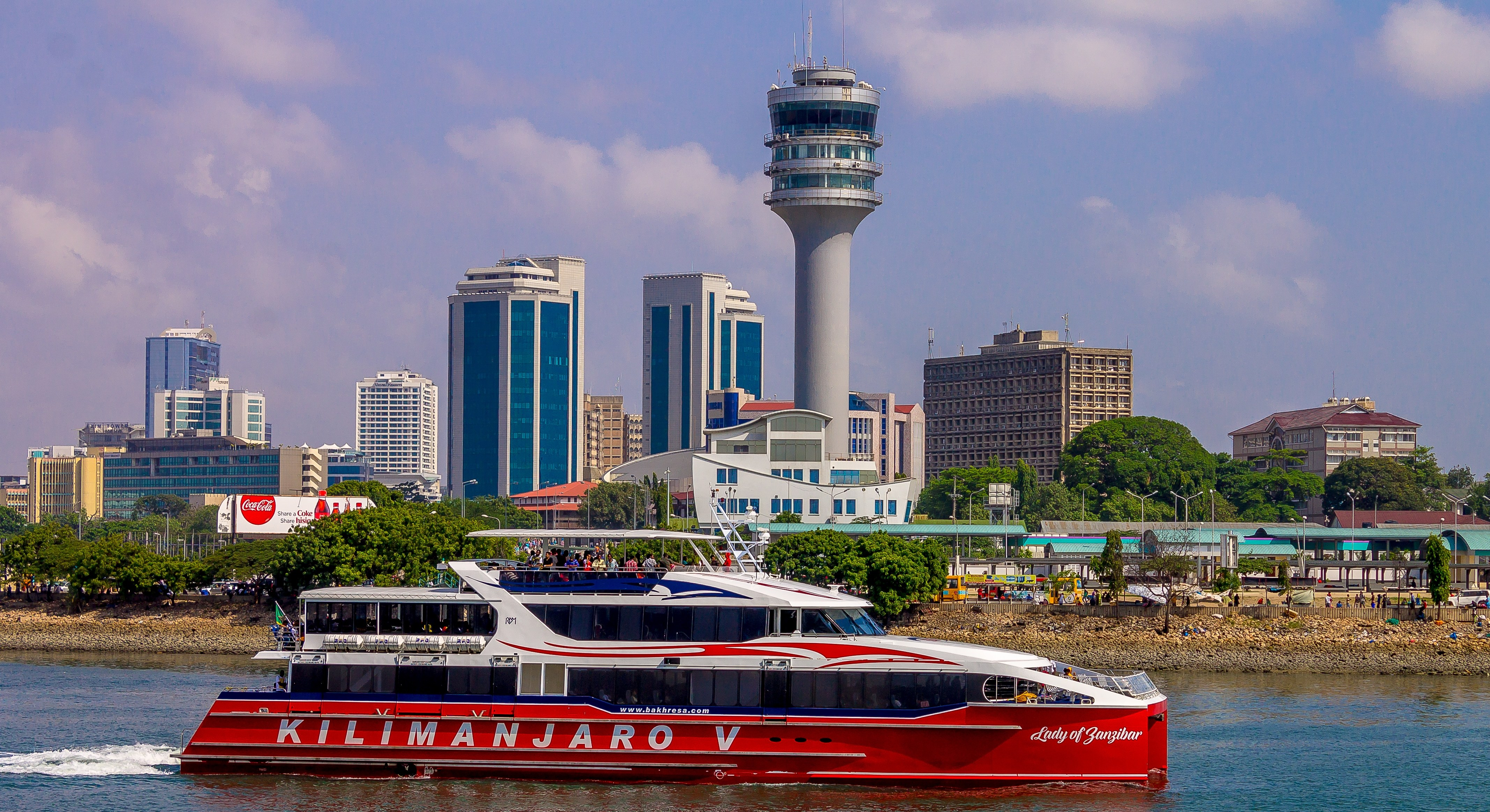 Posta